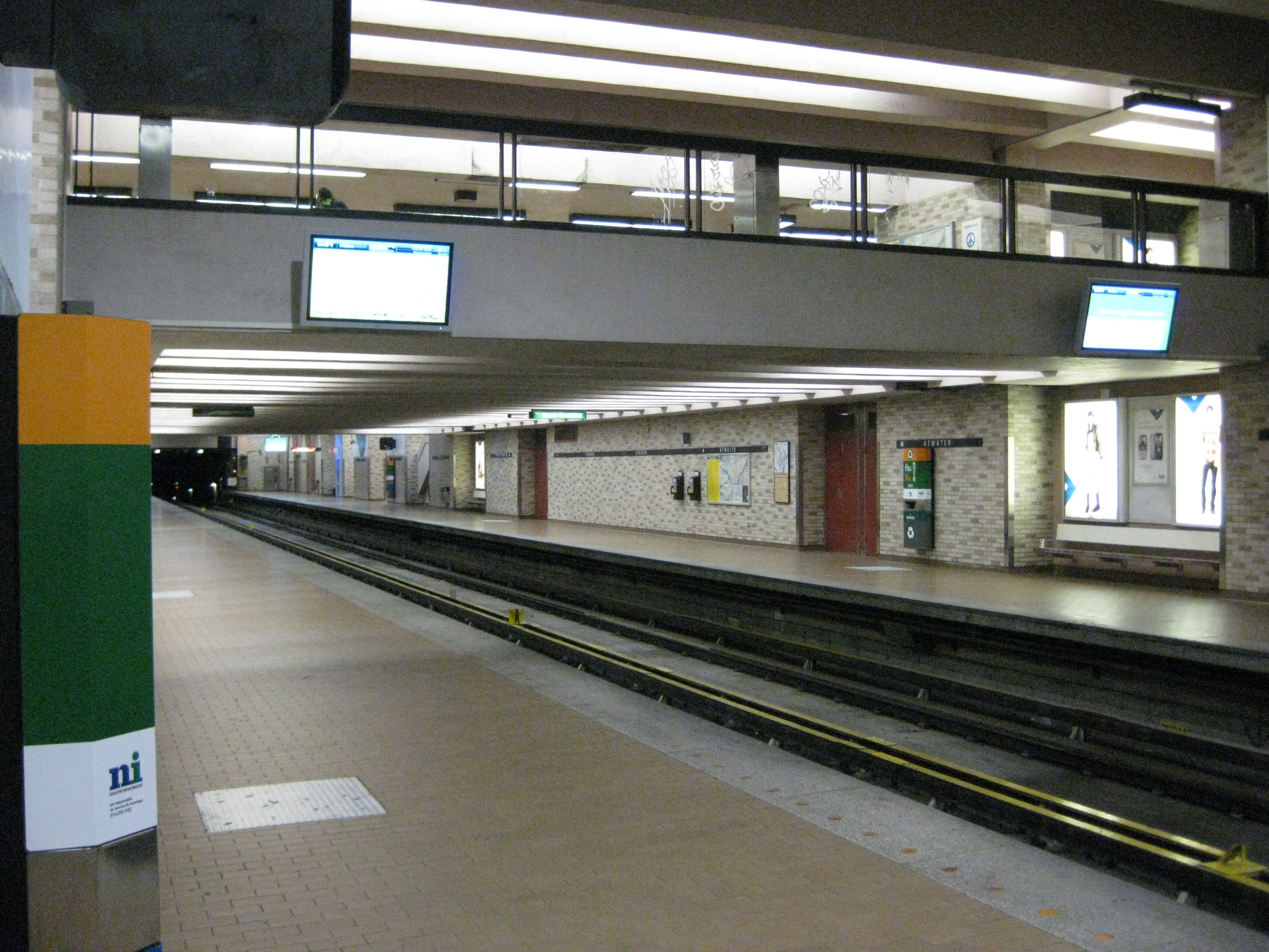 Montreal Metro, Atwater station